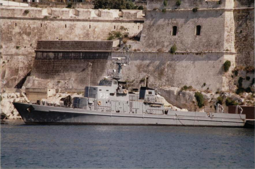 La Valletta (Malta): coastal patrol boat P-30 ex - Ückermünde G 411/GS 01. Transferred from Germany